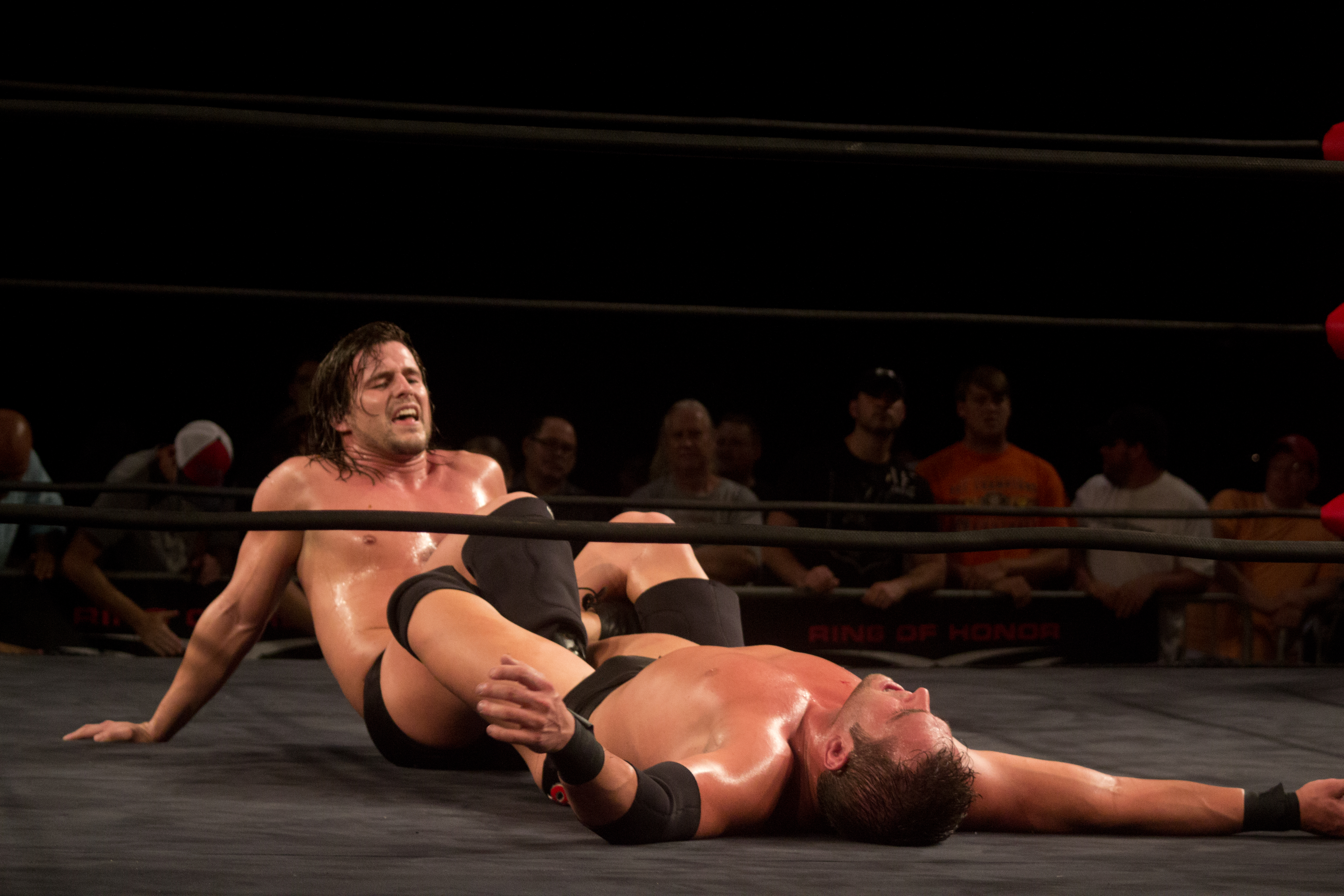 Adam Cole performing a figure four leglock on Roderick Cole at a Ring of Honor show in September 2013.